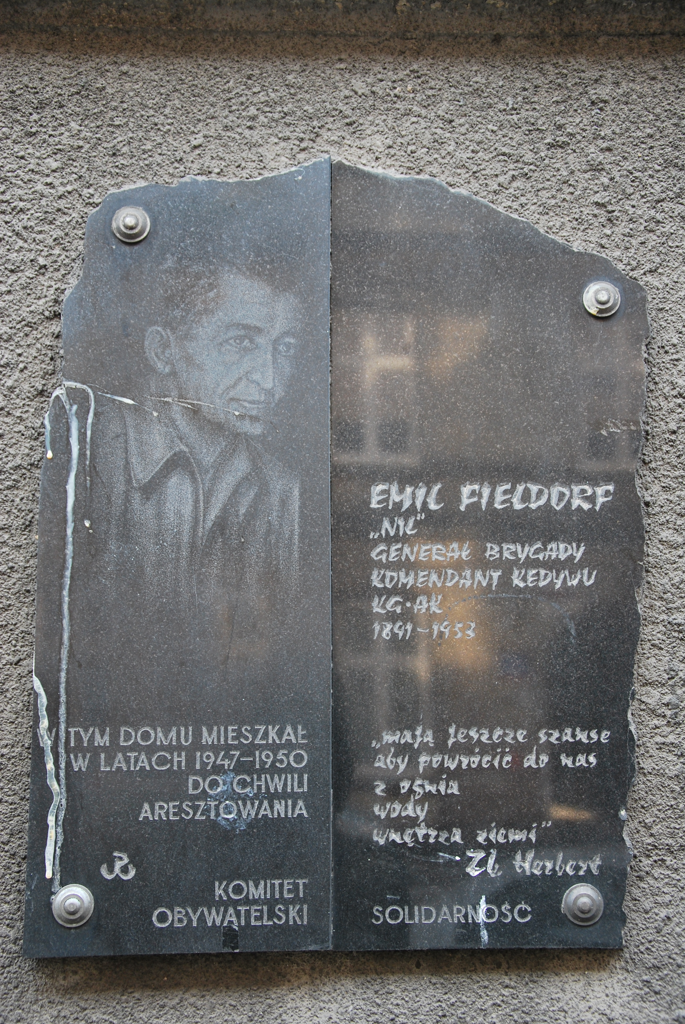 Plaque house Emil Fieldorf, 39 Próchnika Street